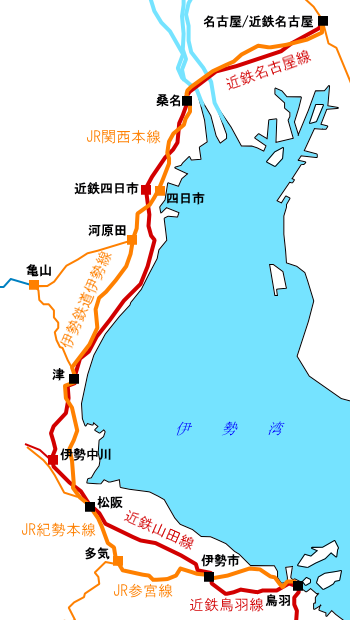 Route map of the rapid service "Mie" of JR Central. The Kintetsu Lines are also drawn for comparison